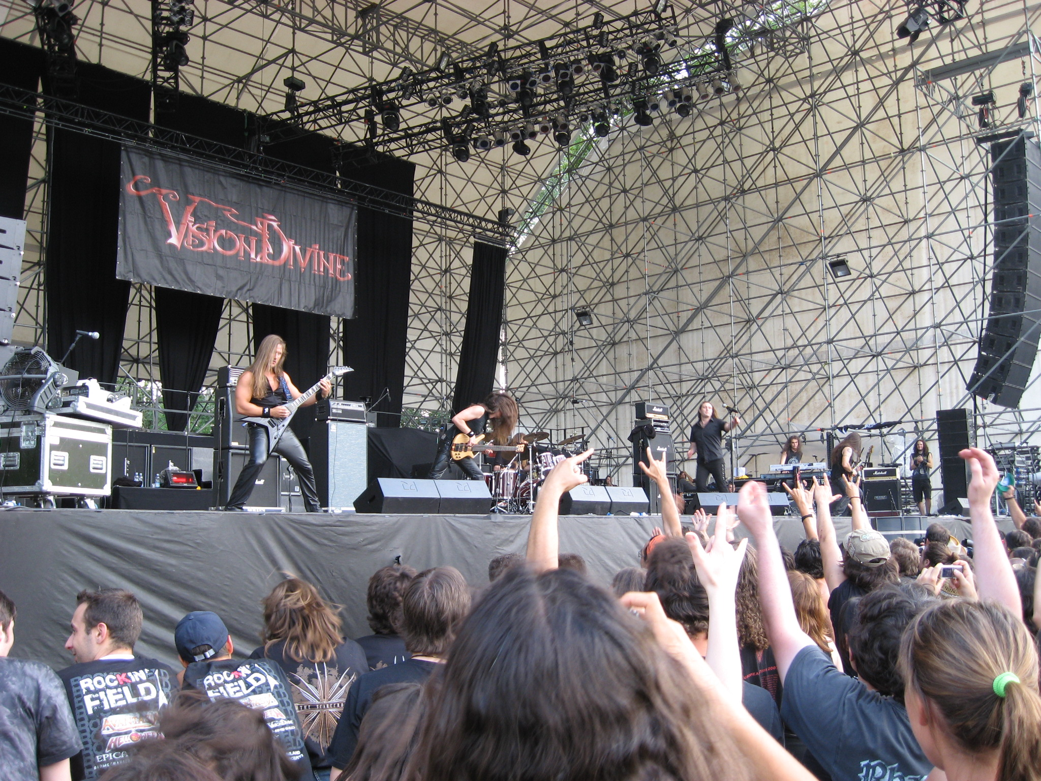 Vision Divine at Rockin' field festival in Milan, Italy (26 July 2008)